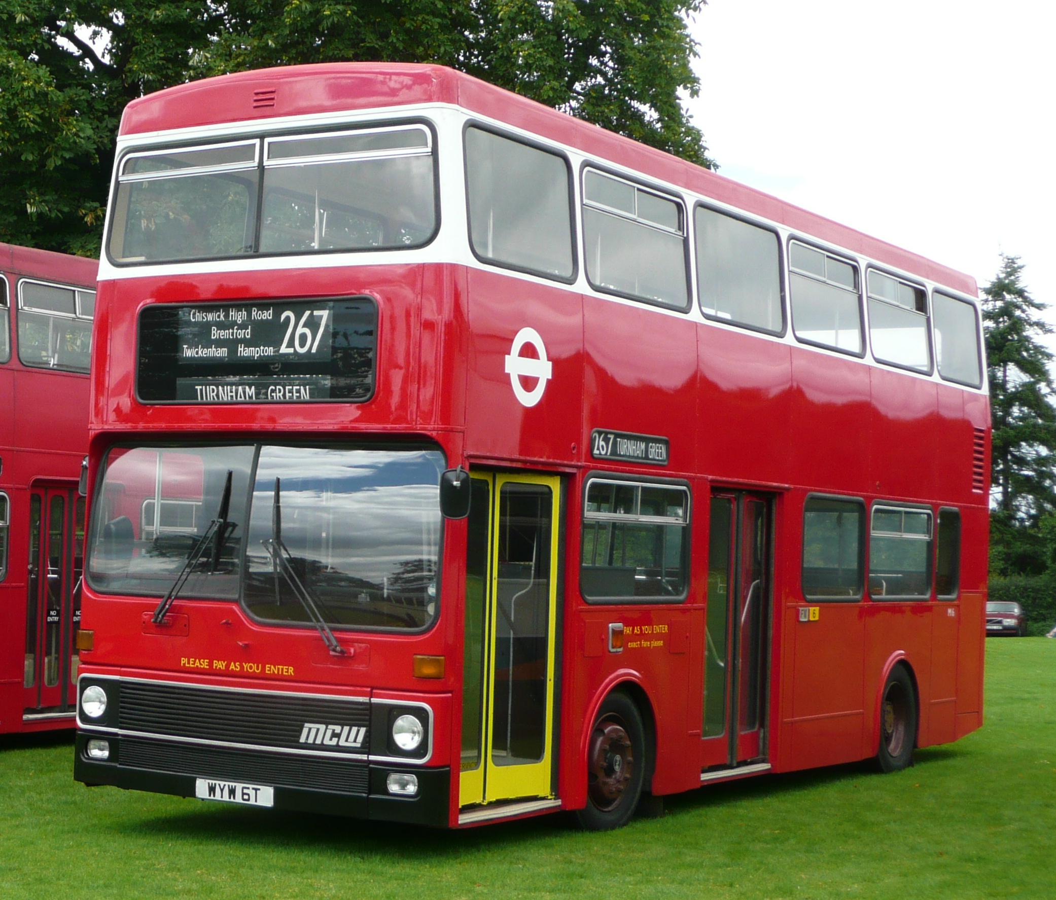 An preserved early example of an MCW Metrobus, which used to be operated on London Buses route 267.